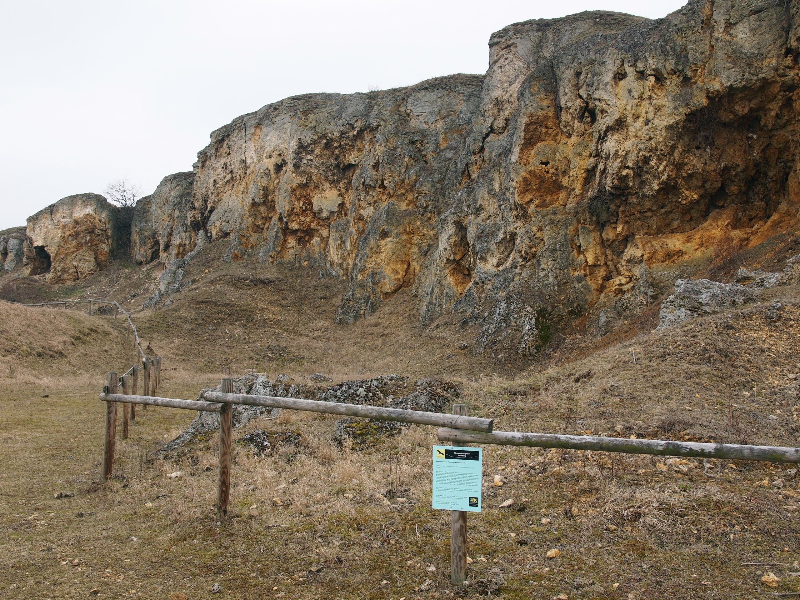 Southern slope of Goldberg, Nördlinger Ries, Germany